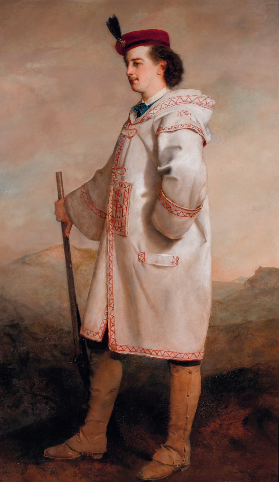 Paul Demidoff, Prince of San Donato oil on canvas 204.5 x 122 cm signed b.r.: 1859 / G Ricard f